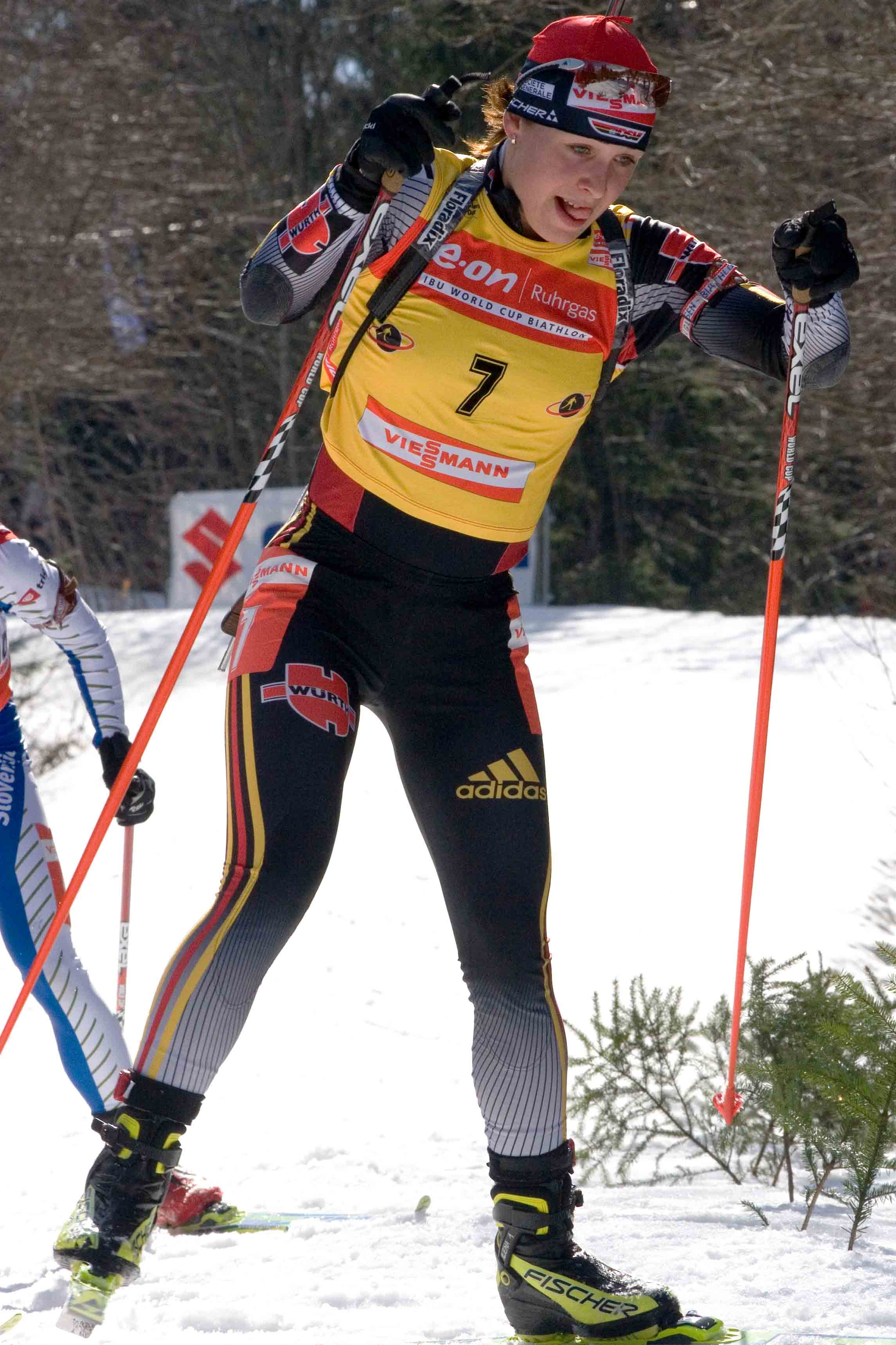 German biathlete Magdalena Neuner at the World Cup in Oslo, Norway, March 2008